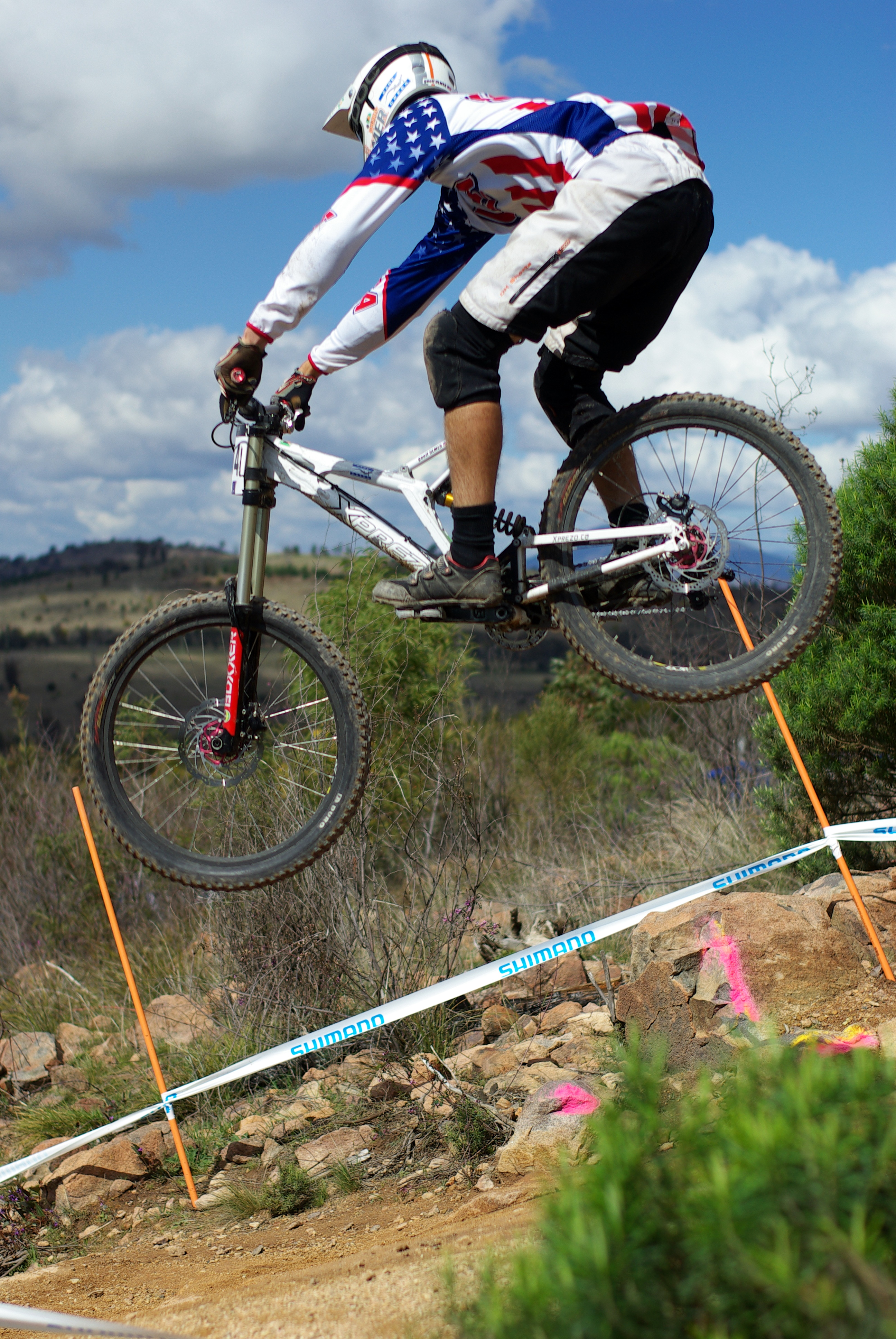 Cross-country mountain biking: Competitors in downhill events at the 2009 UCI Mountain Bike and Trials World Championships held at Mount Stromlo, near Canberra, Australia.